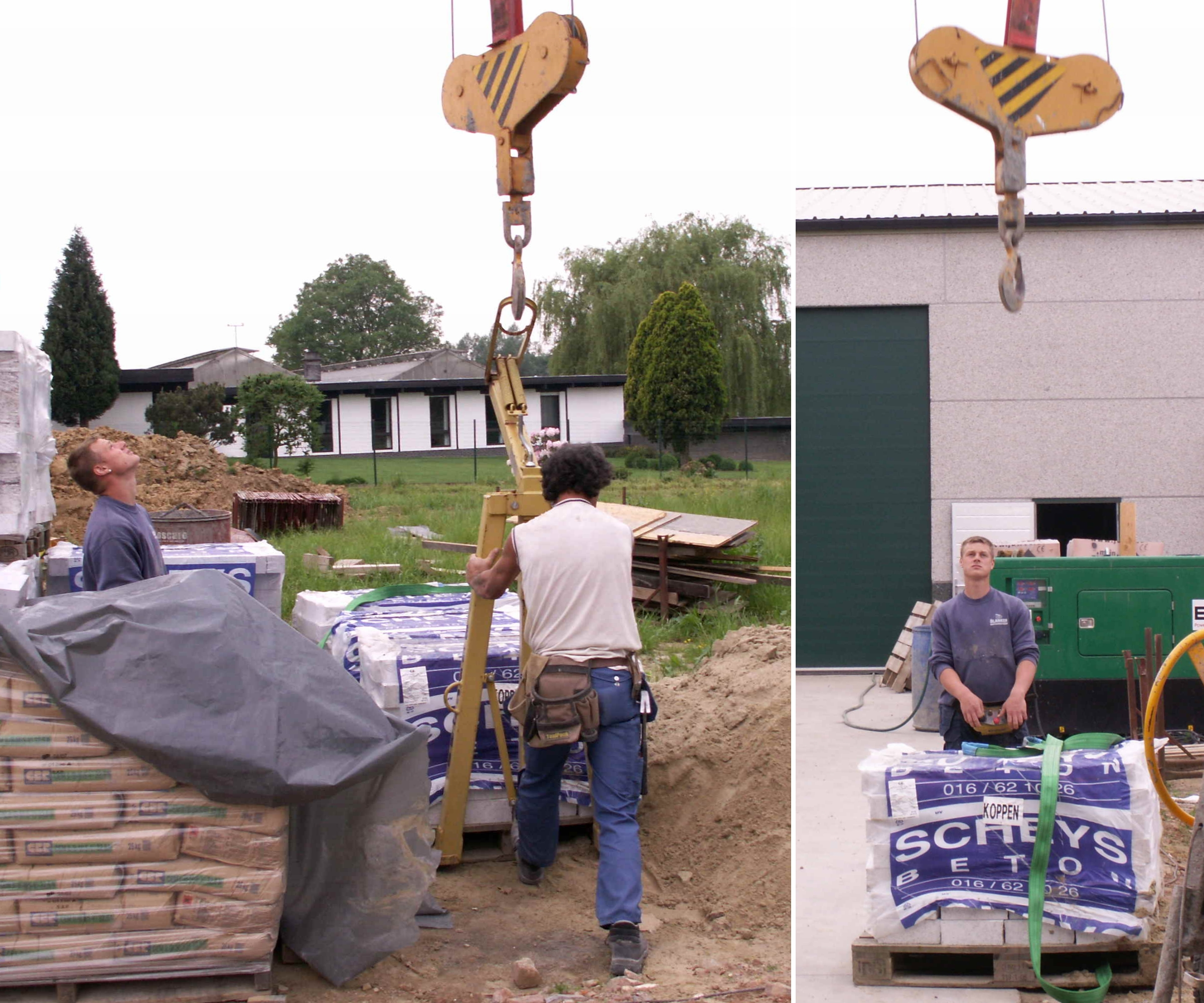 Image composite showing a loading pallet for a crane, and showing a man operating the crane with a remote control.